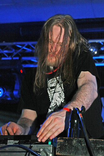 Venetian Snares playing at the Bangface Weekender (UK) in April 2008.